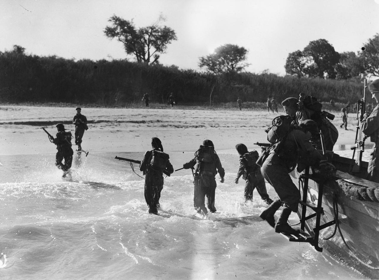 Royal Marines of HMS KENYA dashing ashore as their wooden hulled assault craft touch down on the beach at Cheduba, South of Ramree, Burma. Note the small ladder hanging over the front of the boat so the men can disembark. Royal Marines of the East Indies Fleet made a successful landing on Cheduba Island under protection of a bombardment by cruisers and destroyers and air cover provided by the Fleet Air Arm. Comment : see Battle of Ramree Island.